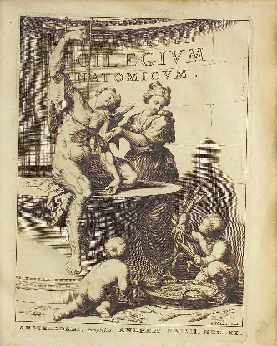 Illustrated Title page of Theodor Kerckring: Spicilegium anatomicum